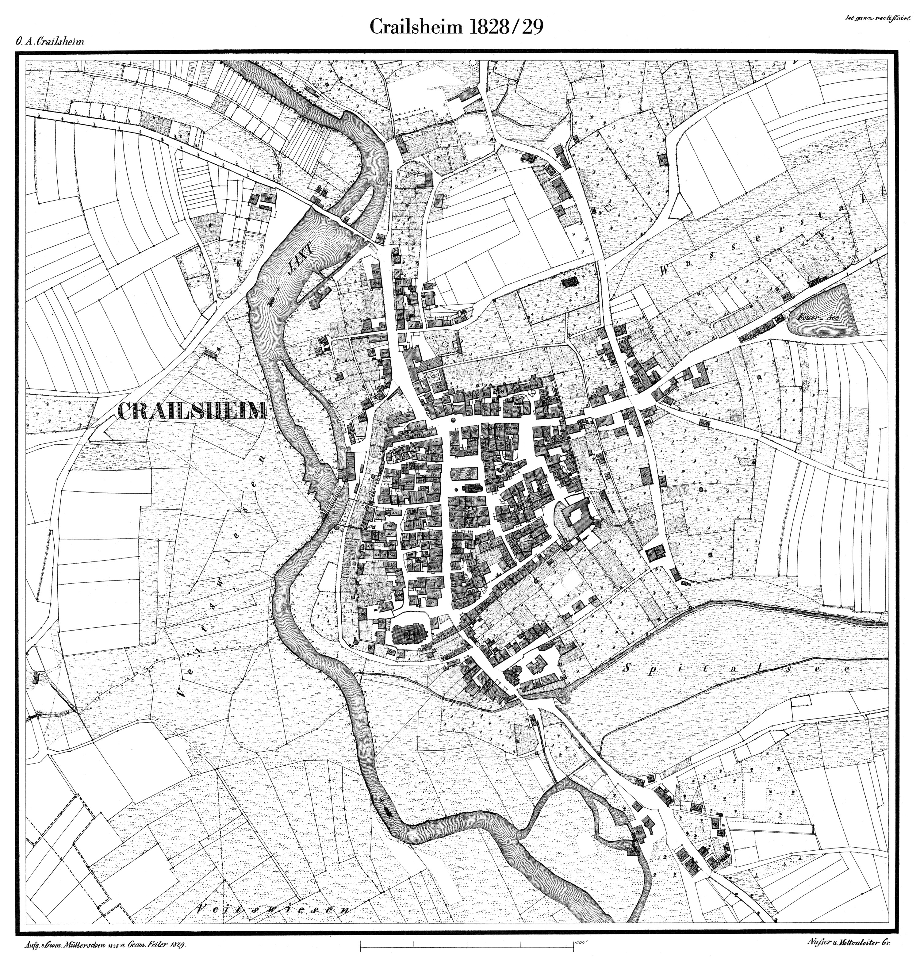 Map of Crailsheim from 1828/29, scale 1:2500